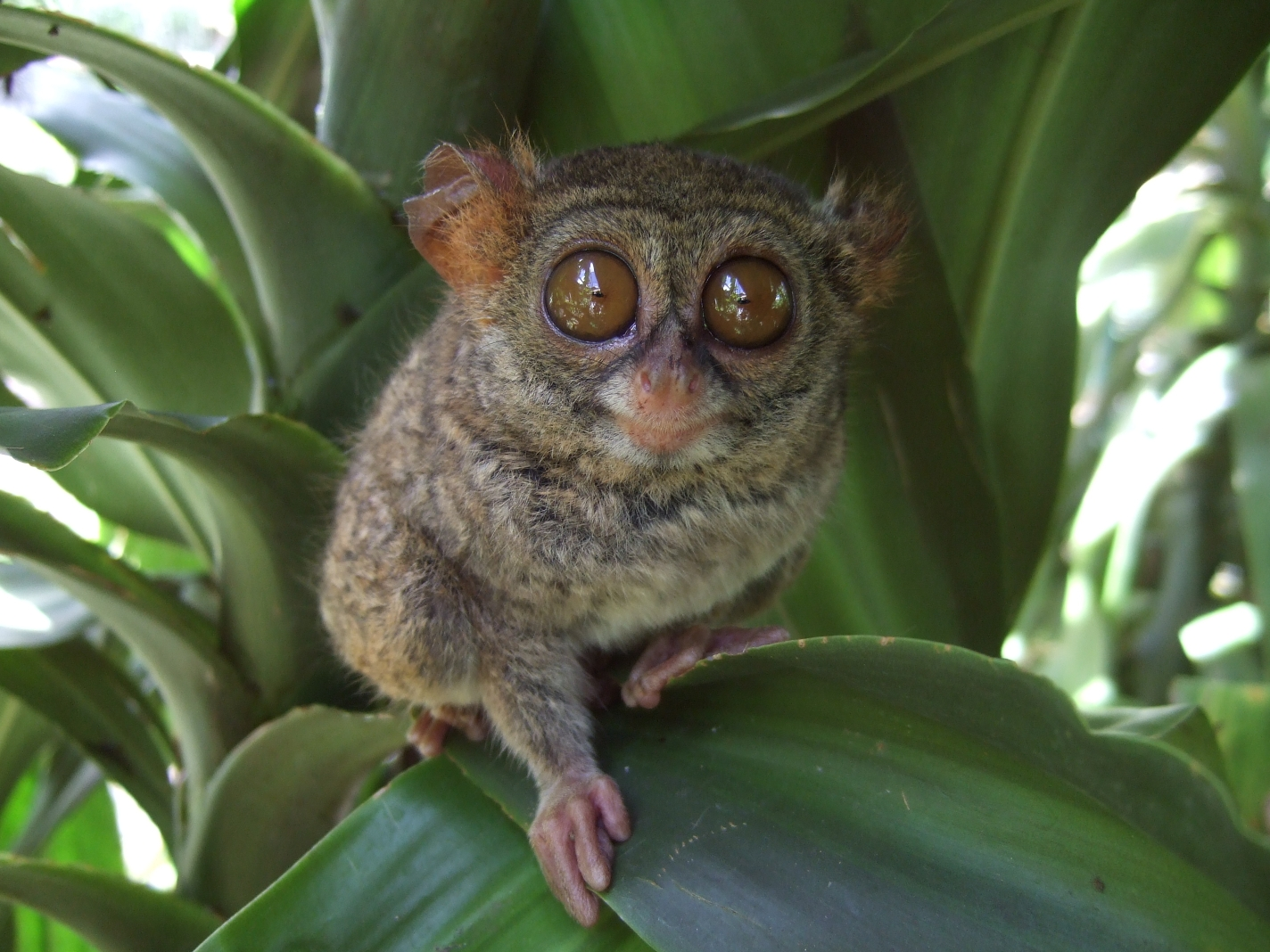 Tarsier Tarsius sp., Grand Naemundung Mini Zoo, Tandurusa, Bitung, North Sulawesi Geography suggests this is not the Spectral Tarsier (Tarsius tarsier), but an undescribed species called Tarsius sp. 1 by Shekelle and Groves (2010). Reference: Groves, C.; Shekelle, M. (2010). "The Genera and Species of Tarsiidae" (PDF). International Journal of Primatology.